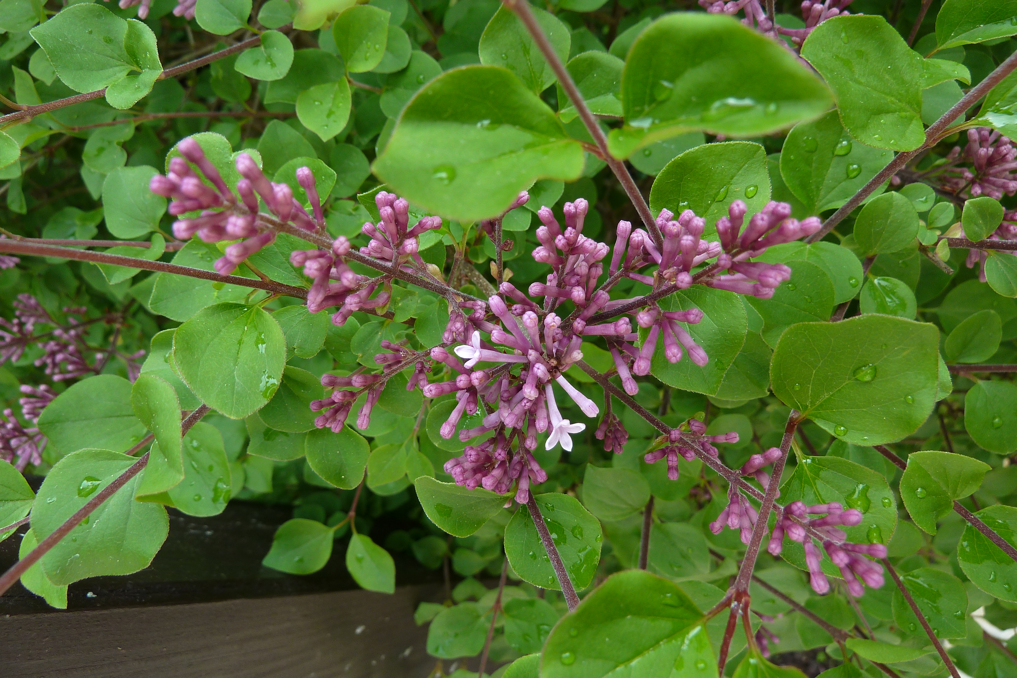 Dwarf lilac, Syringa meyeri 'Palibin'